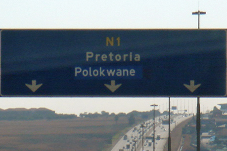 The N1 between Johannesburg and Pretoria, one of the busiest roads of South Africa.